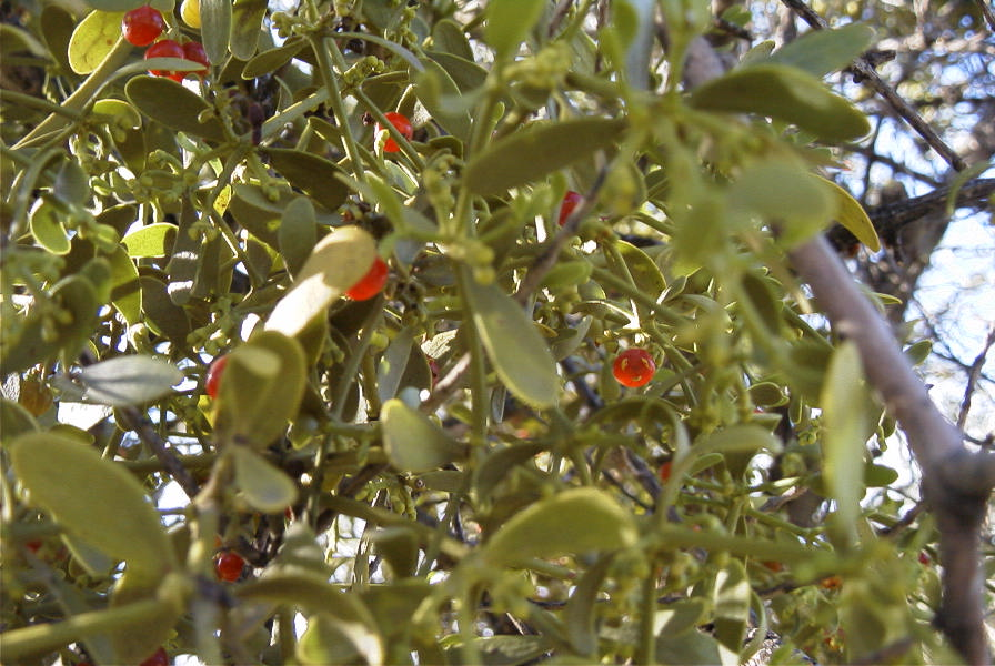 Found growing in an olive tree near Velez Malaga, Spain